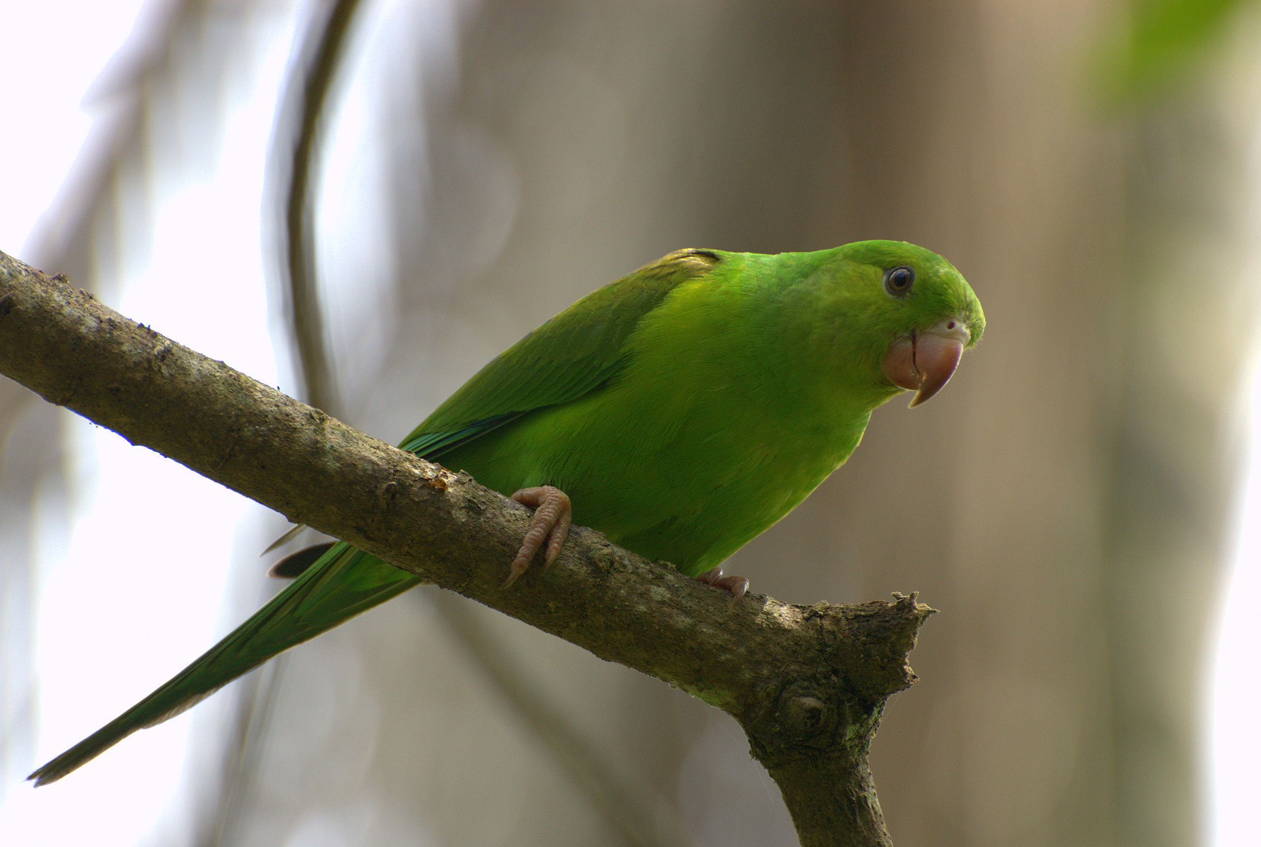 Plain Parakeet (Brotogeris tirica) on a branch. No quintal da casa da minha sogra na cidade de Registro-SP